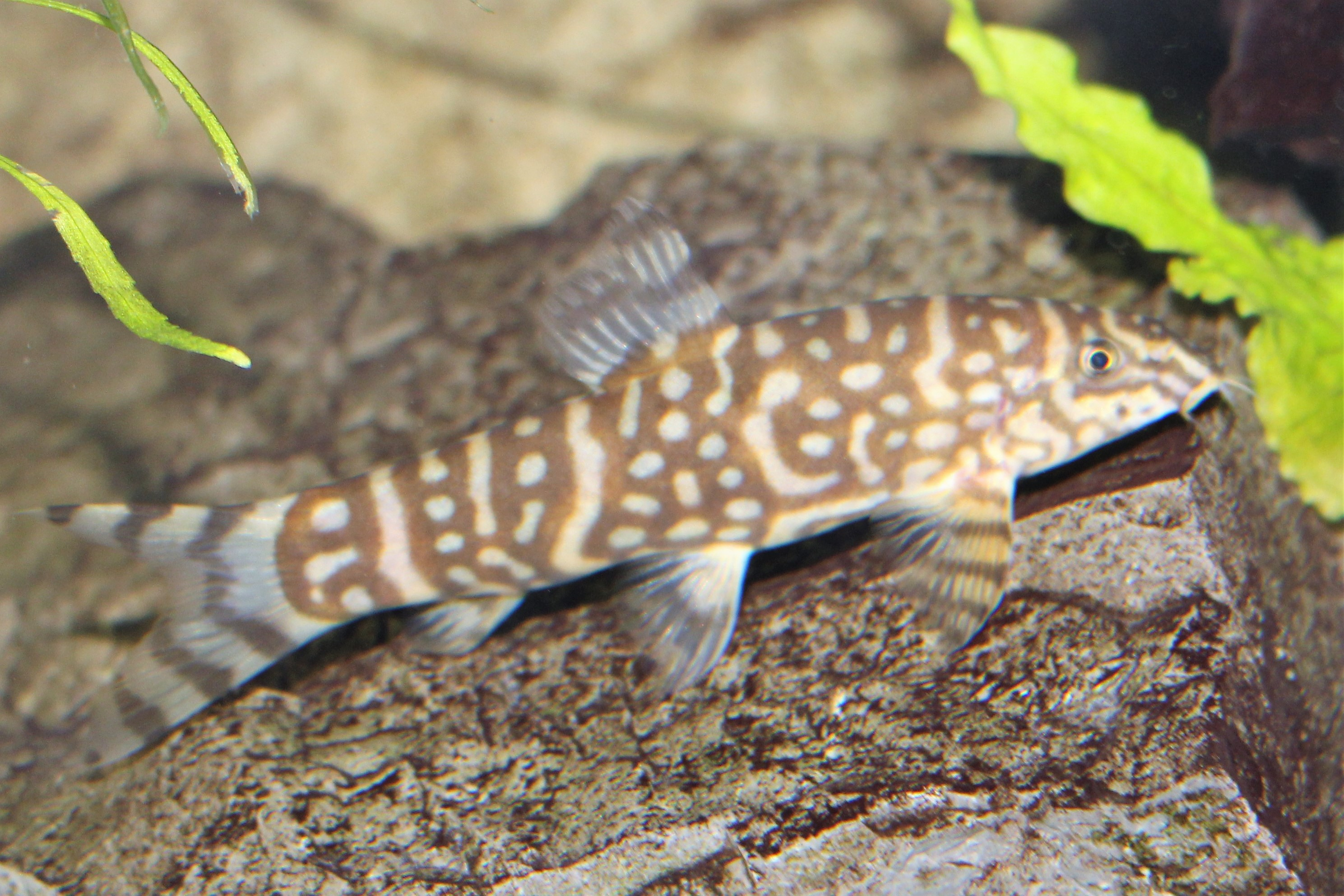 Bengal loach or queen loach (Botia dario) in Nagyvárad Zoo, Transylvania.